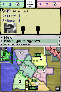 Diamond Trust of London screenshot. Released in 2012, the game was developed by Jason Rohrer, with music by Tom Bailey. The game and its supporting assets have been released into the public domain and is hosted on SourceForge at (license) The player flies his agents out to Angola, where he has the opportunity to bribe the UN inspector.